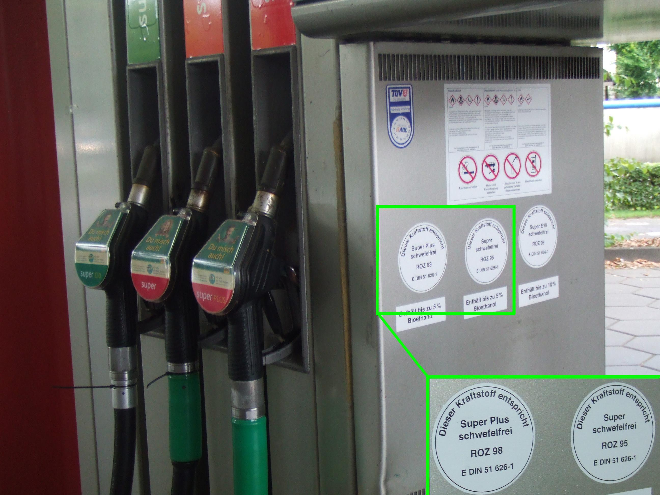 Petrol Station